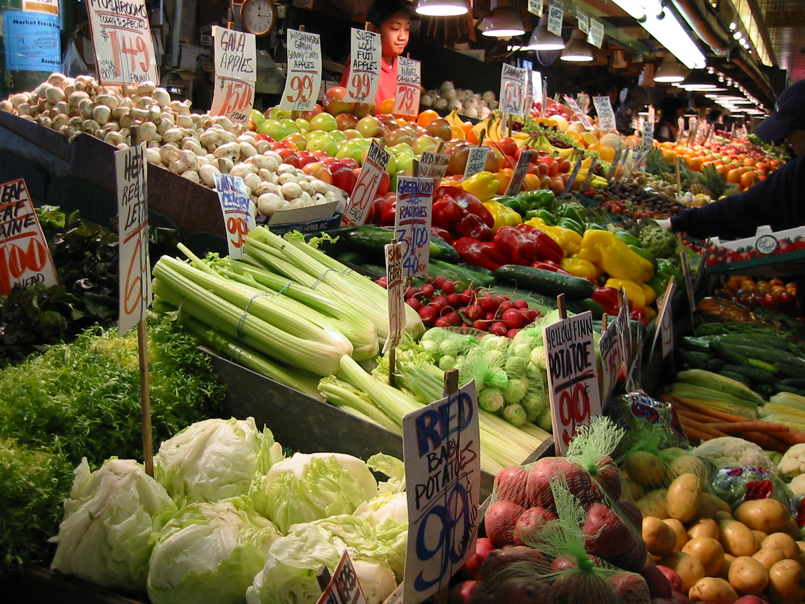 Various fruits and vegetables for sale at Pike Place Market, Seattle